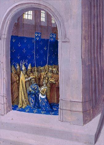 Coronations Louis X and Clemence